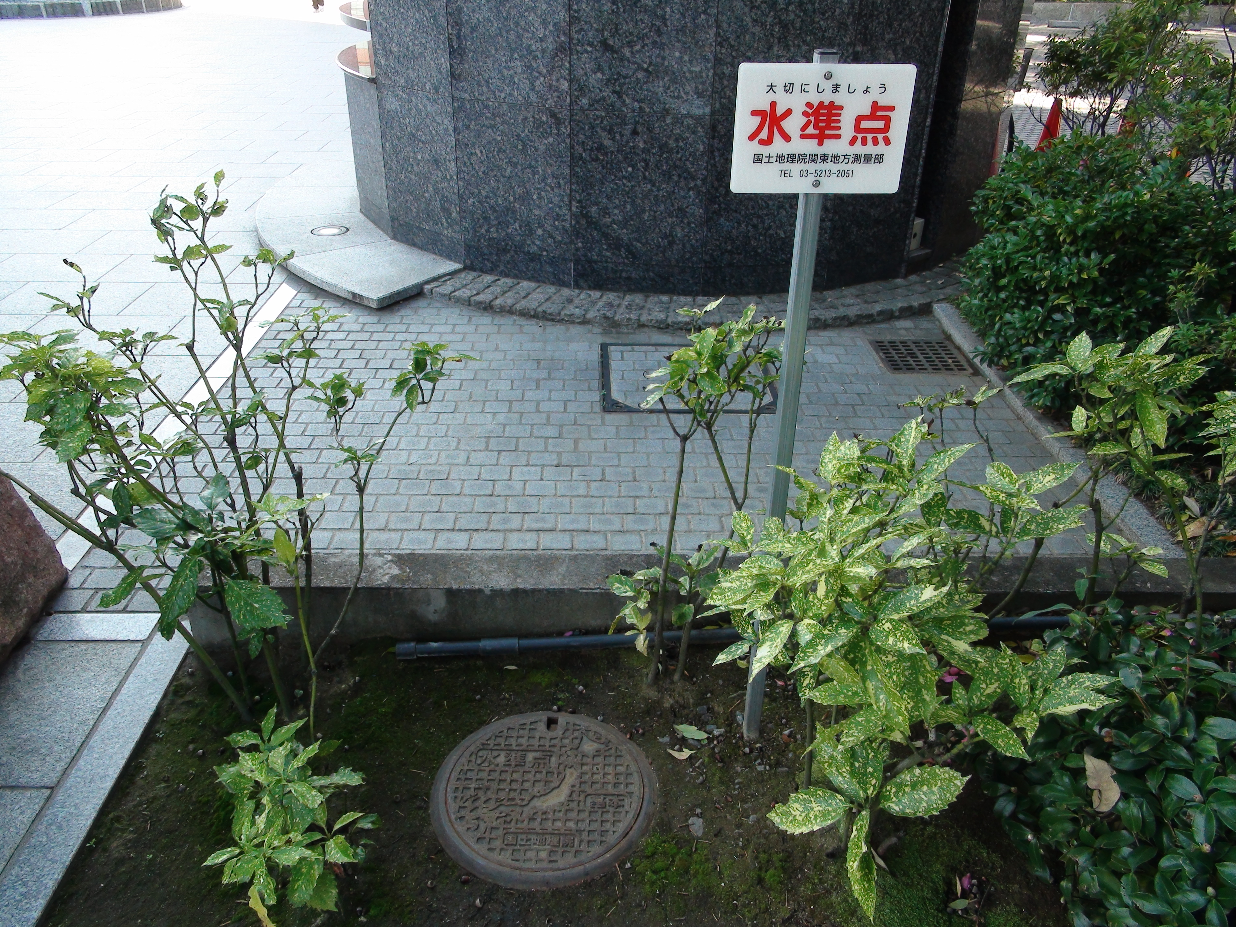 First-order benchmark Sakaori Kofu Japan